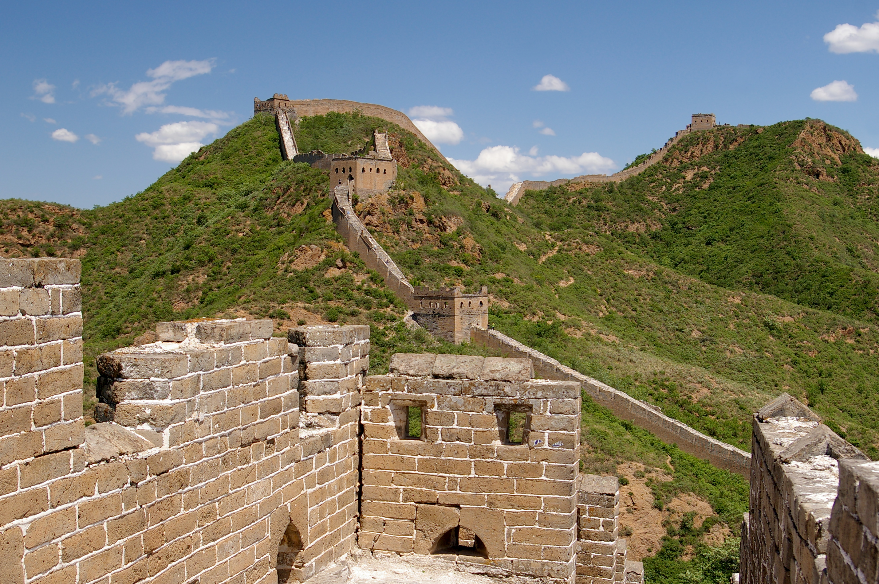 Great Wall of China near Jinshanling